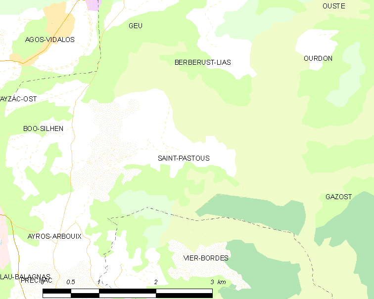 Map of French municipality